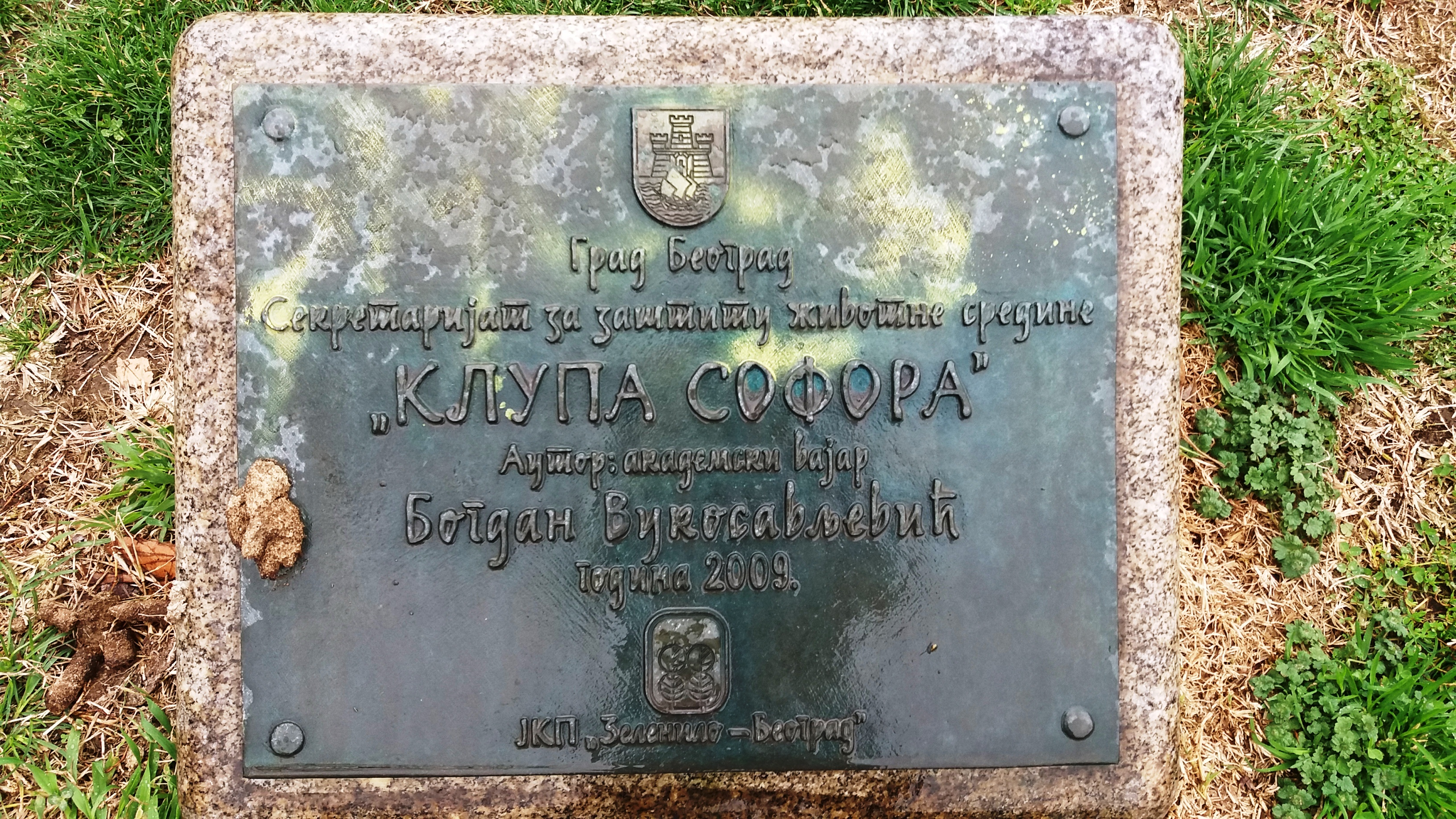 Monument Bench sophora, info board, Academic park in Belgrade